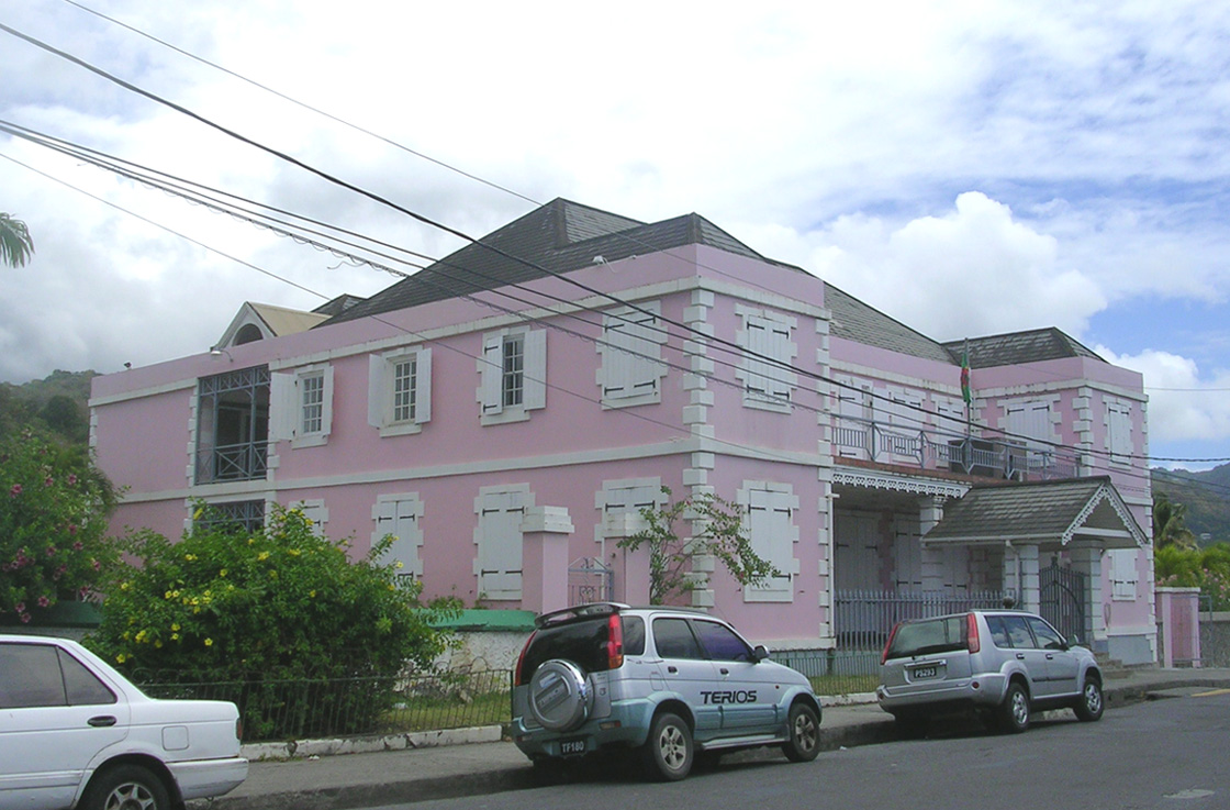 The Parliament building of Dominica, on Victoria Street in Roseau. It is just beyond the New State House. It was built in 1811. The building was destroyed by arson in 1979, and rebuilt. When I saw it, I thought it was an old mansion. I could not tell whether it was currently in use or not.